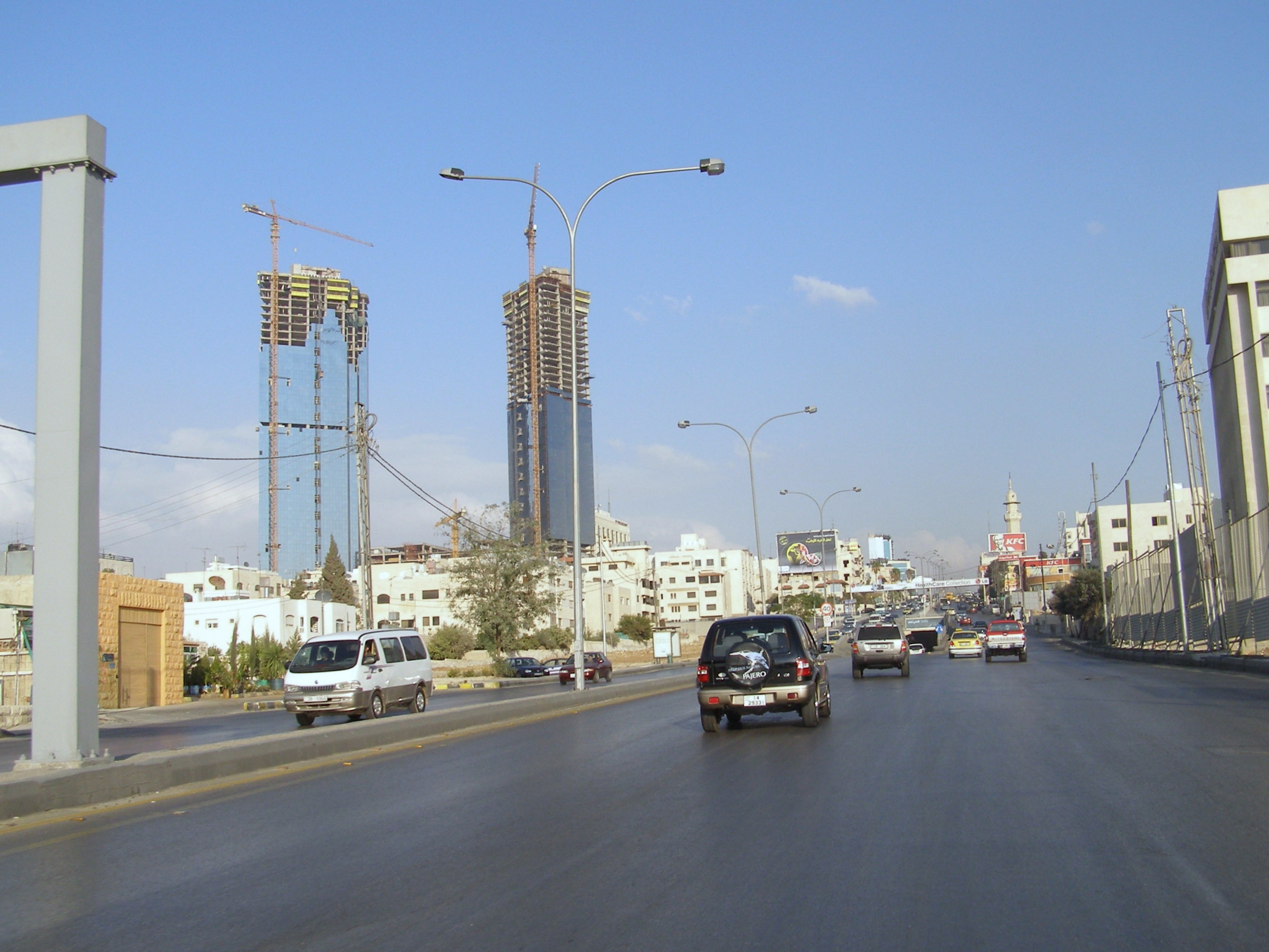 Amman Gate